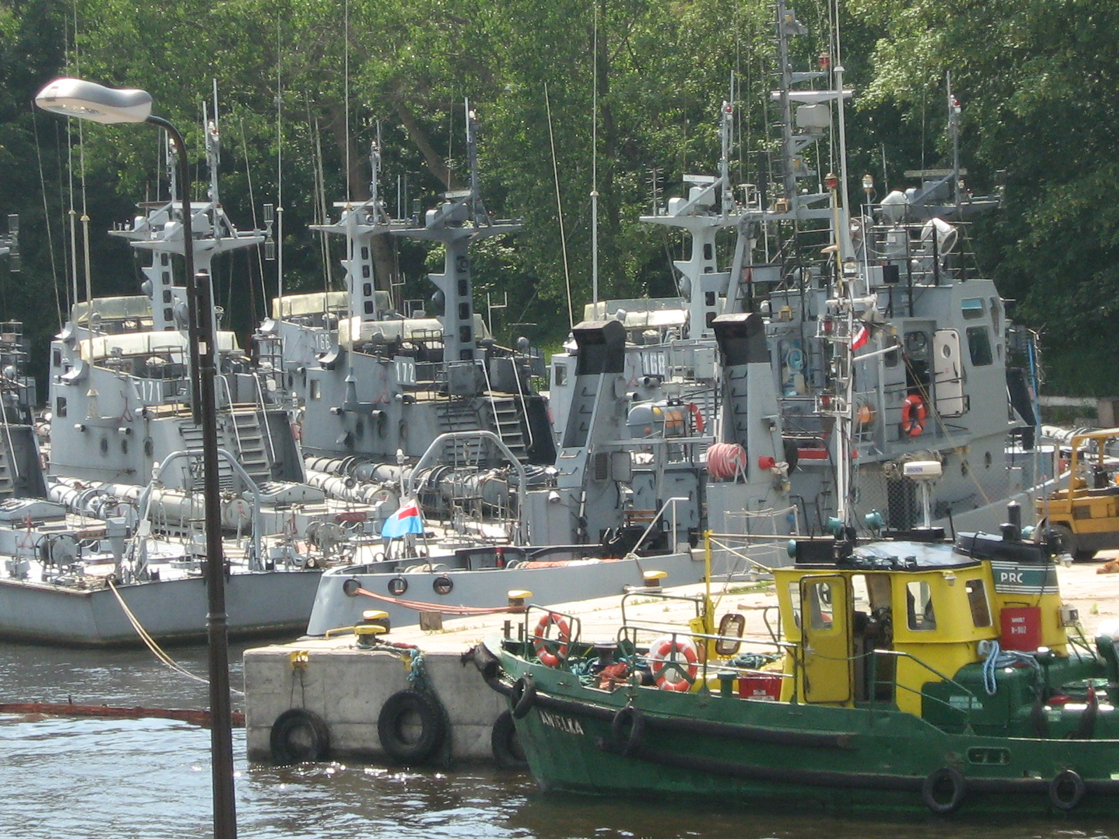 Naval base in Kołobrzeg, Poland - left: Project 918M (Pilica class) ASW craft.